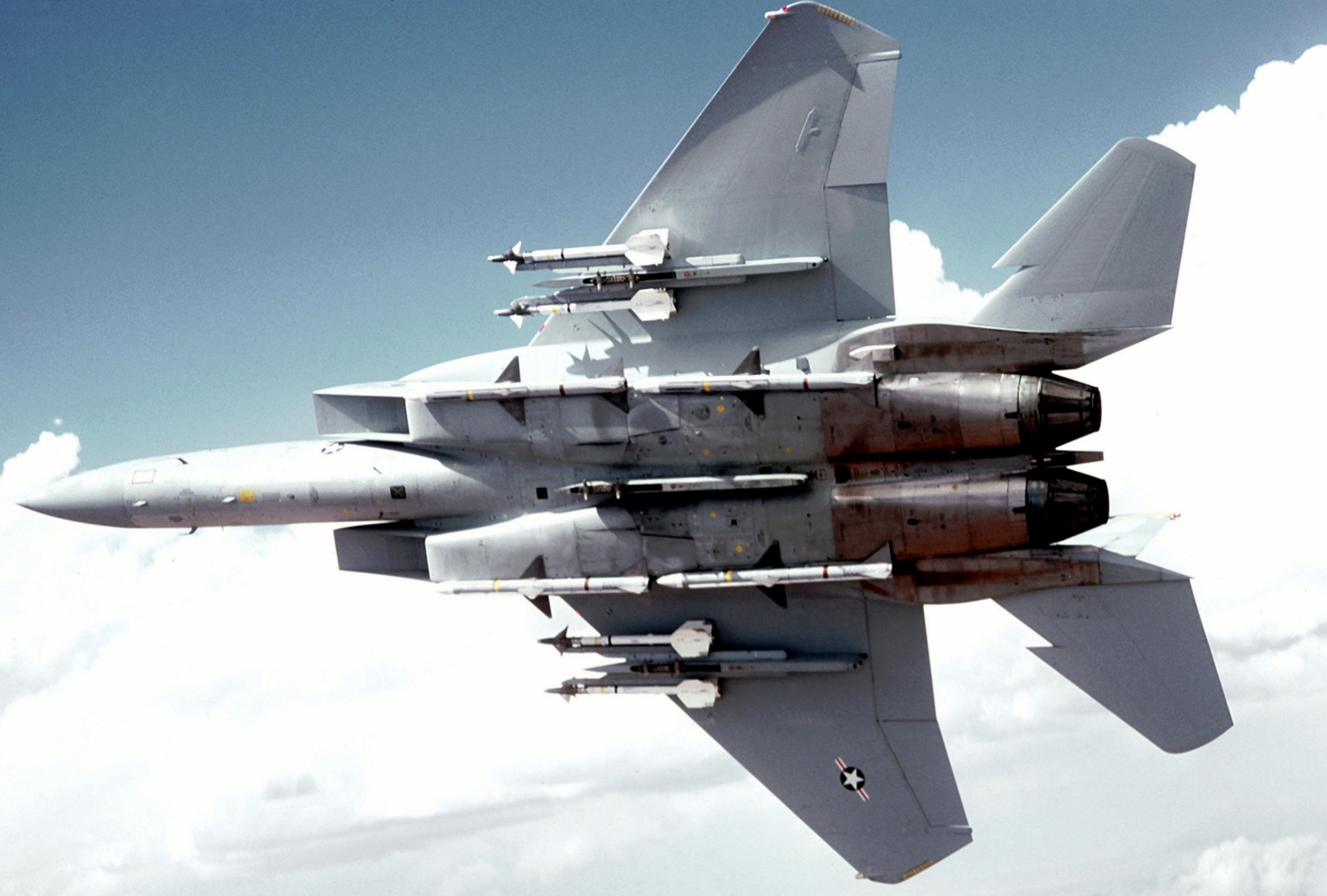 Bottom view of a U.S. Air Force McDonnell Douglas F-15 Eagle aircraft armed with AIM-9L Sidewinder and AIM-7F Sparrow missiles, in flight at the White Sands Missile Range, New Mexico (USA), in 1980.